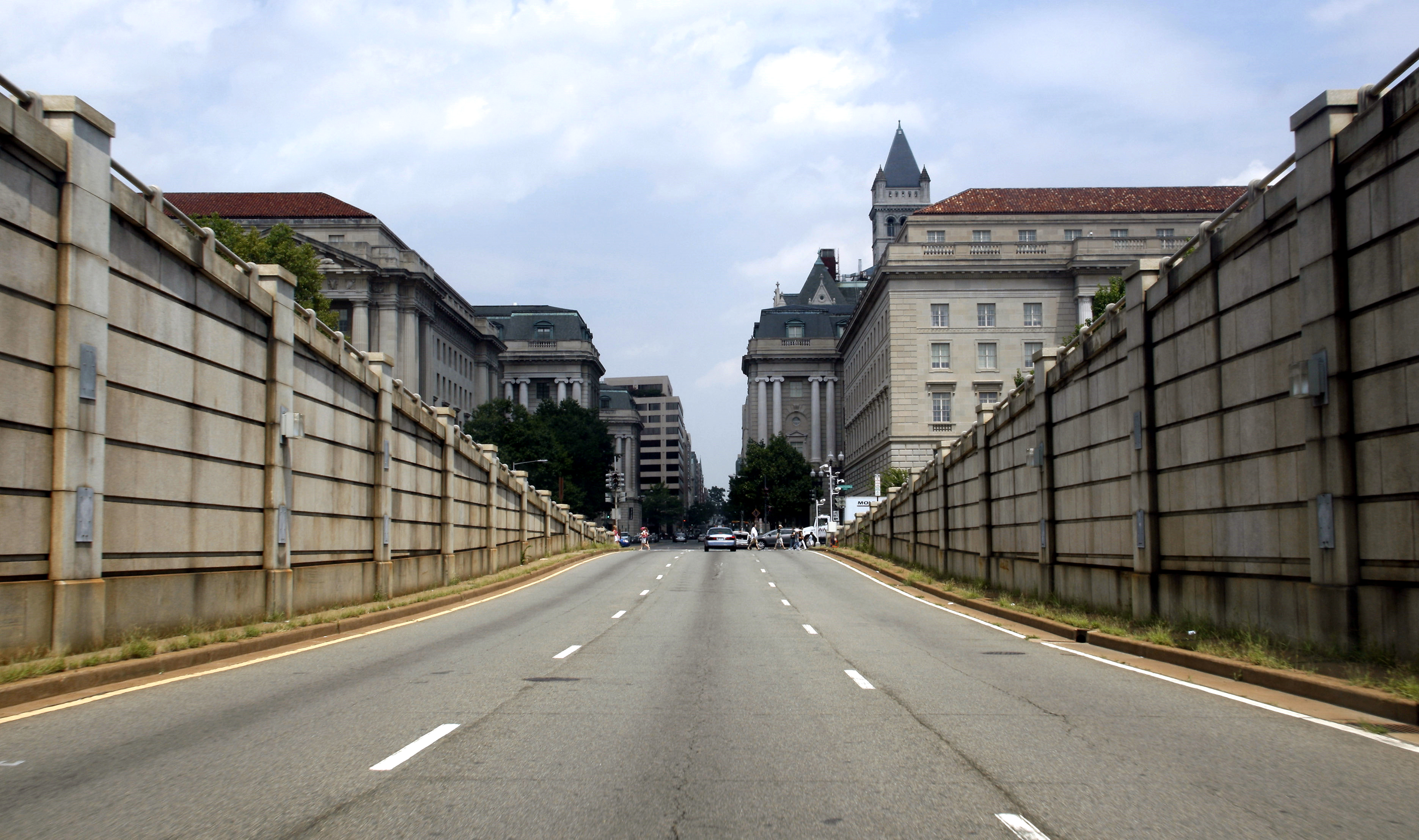 Driving north on 12th Street, NW (under the National Mall) in Washington, D.C.